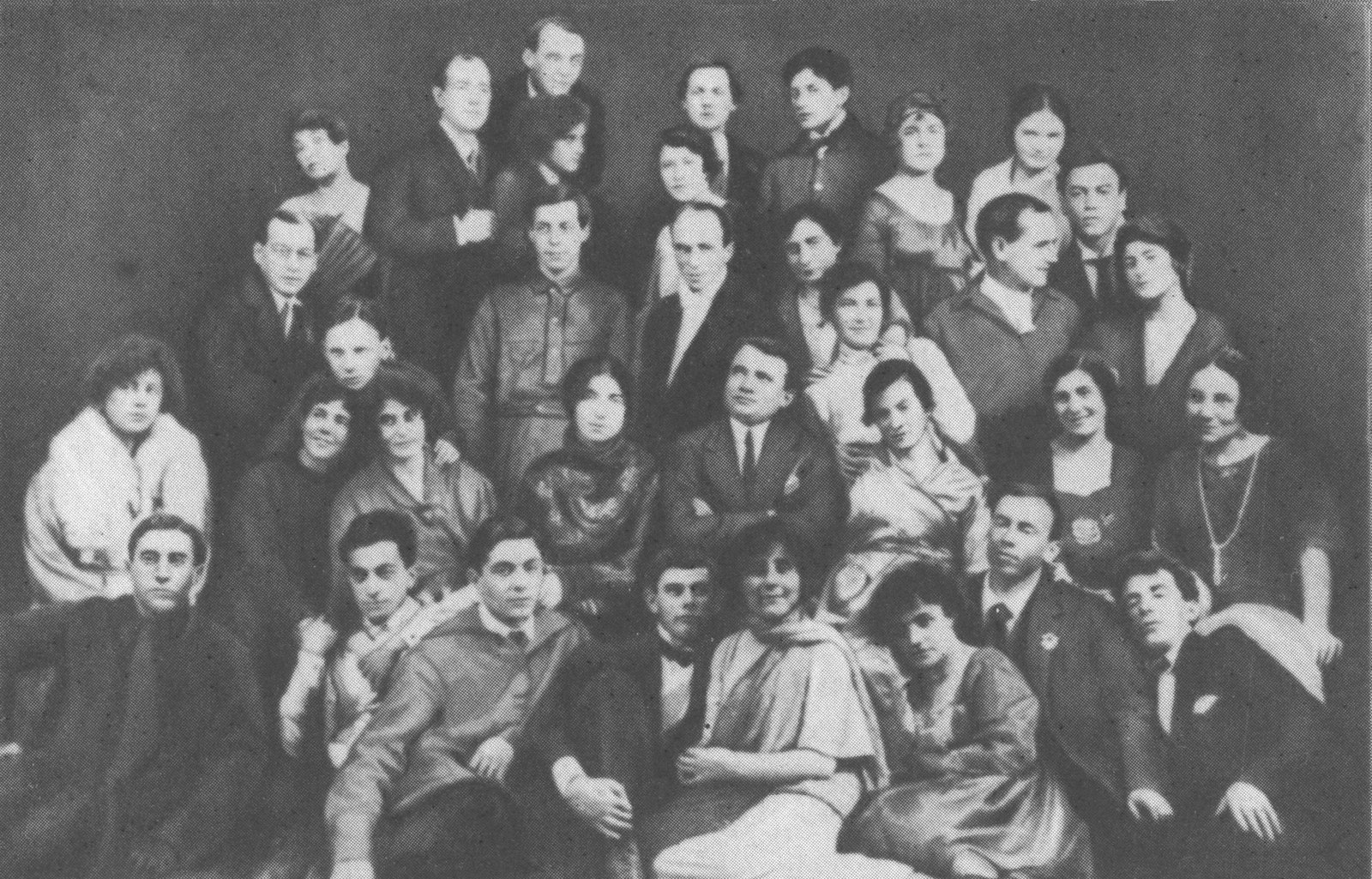 the III_studio_of MHAT